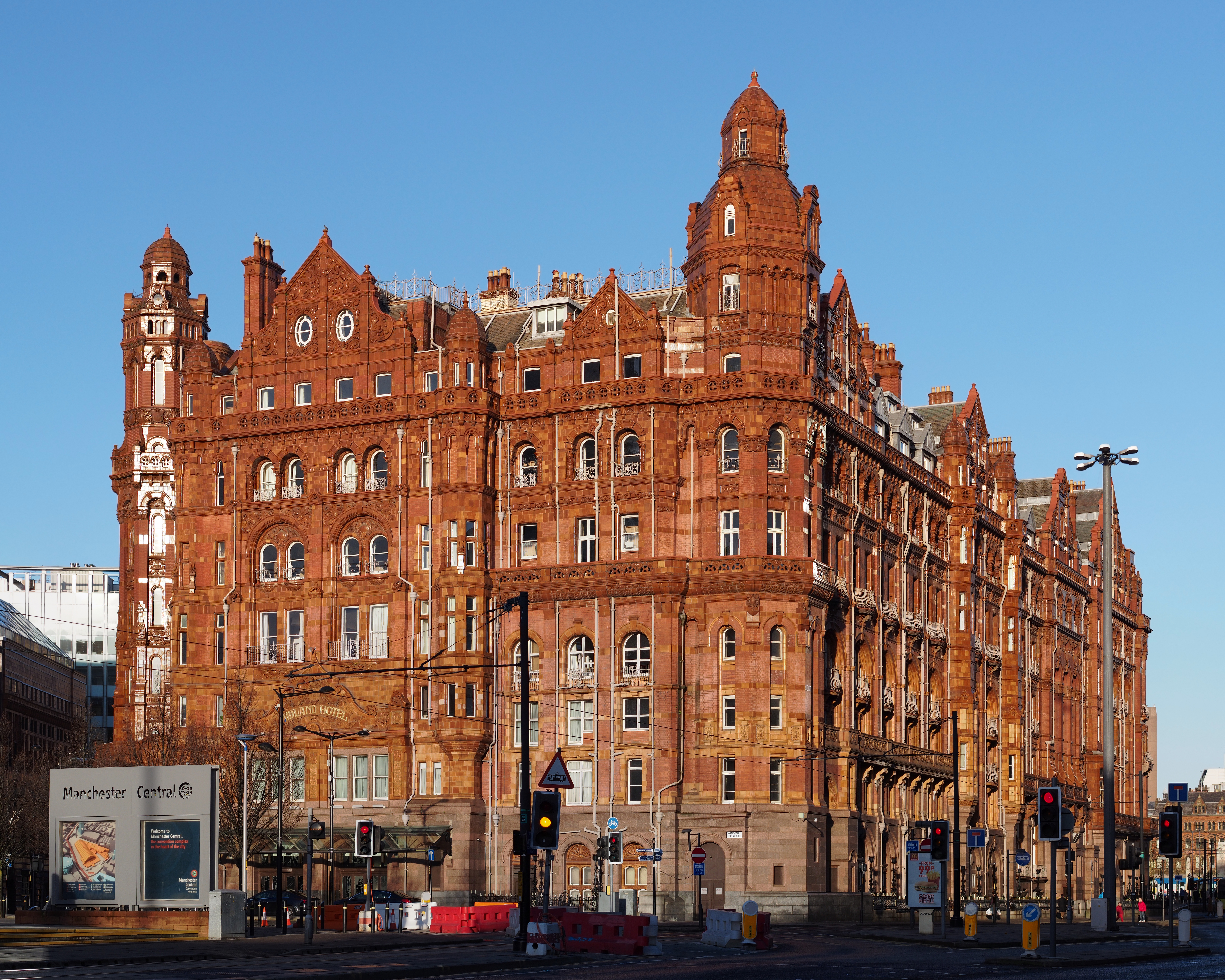 Midland Hotel, Manchester, UK